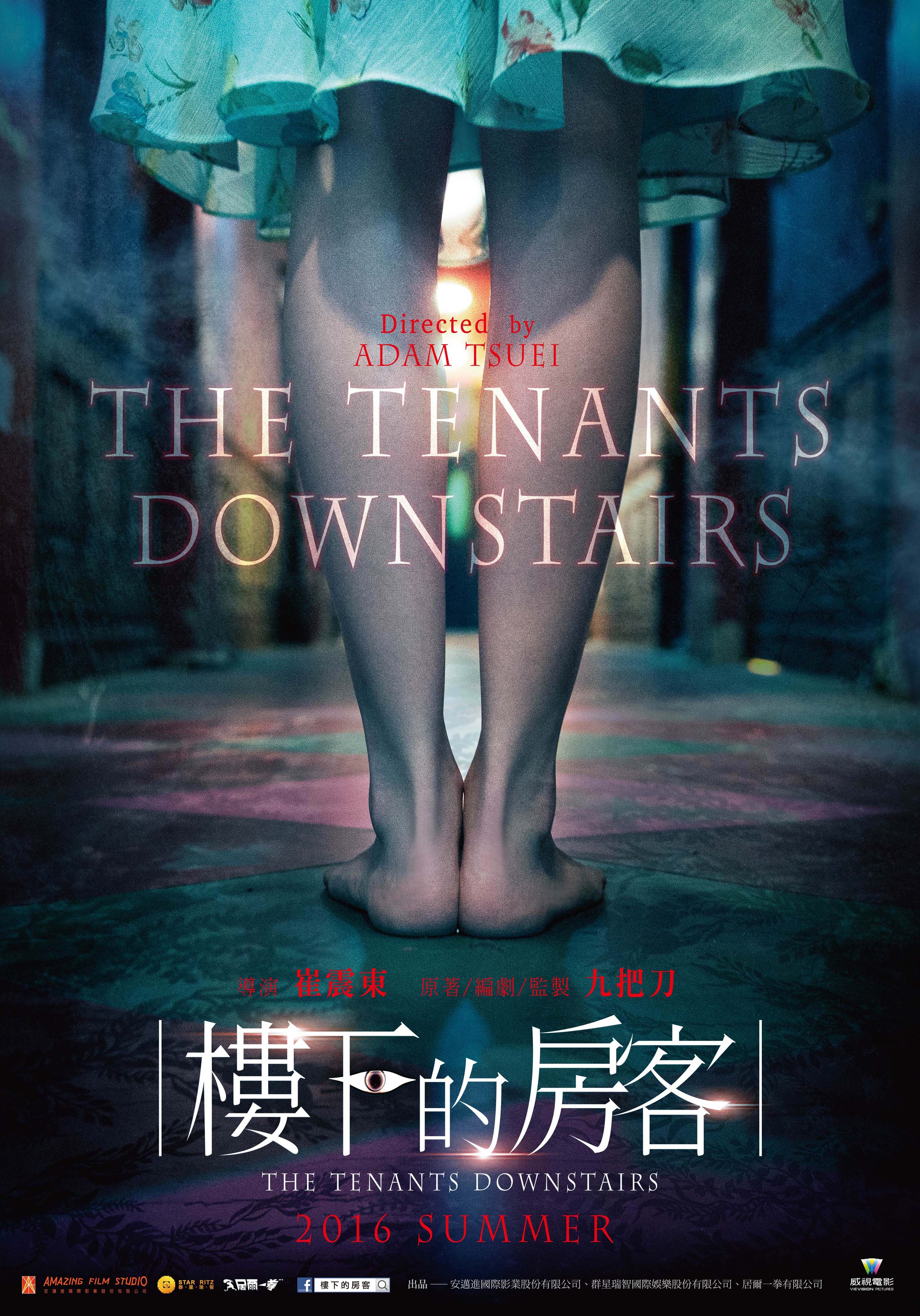 This is a poster of The Tenants Downstairs